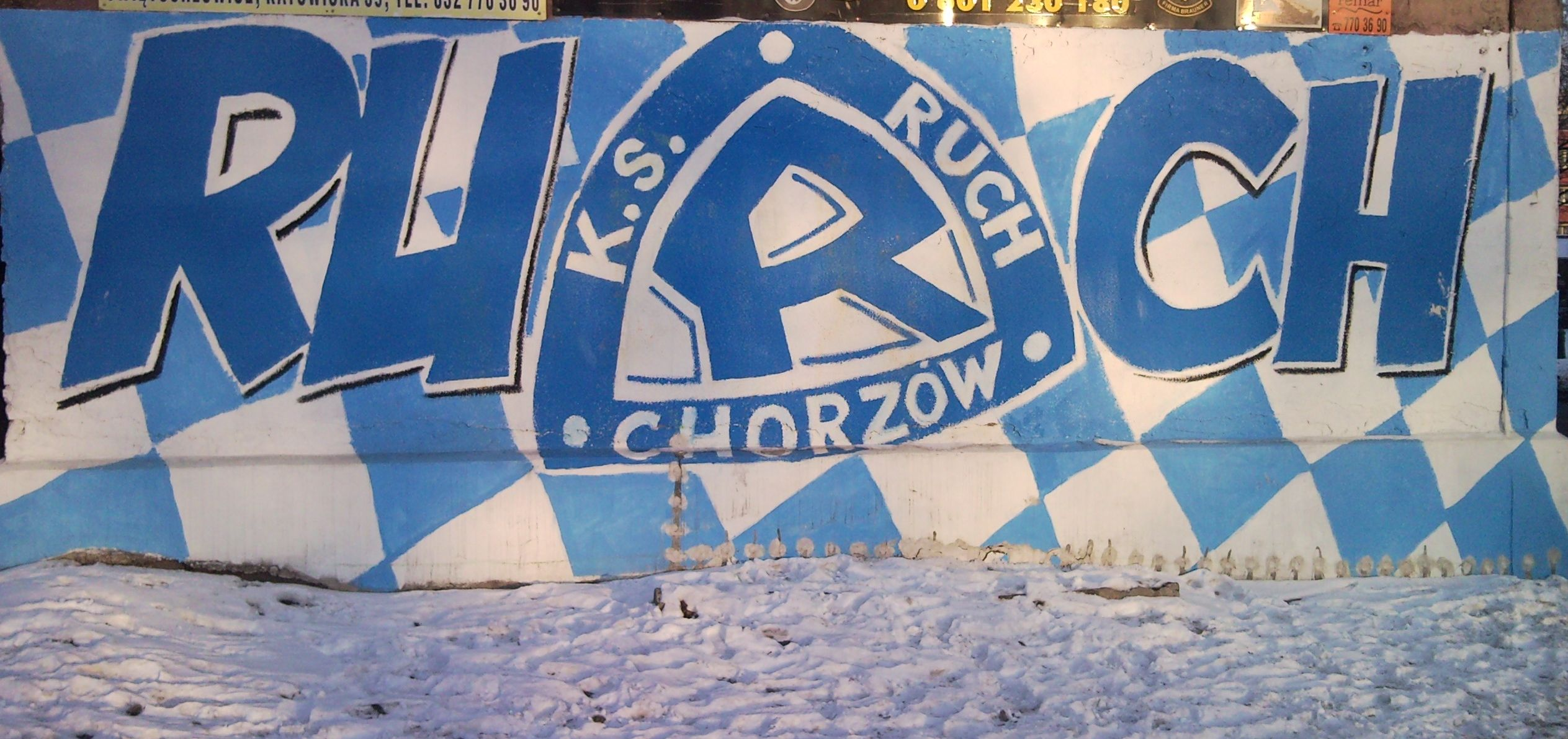 Ruch Chorzów football club mural, Old Chorzów, Upper Silesia